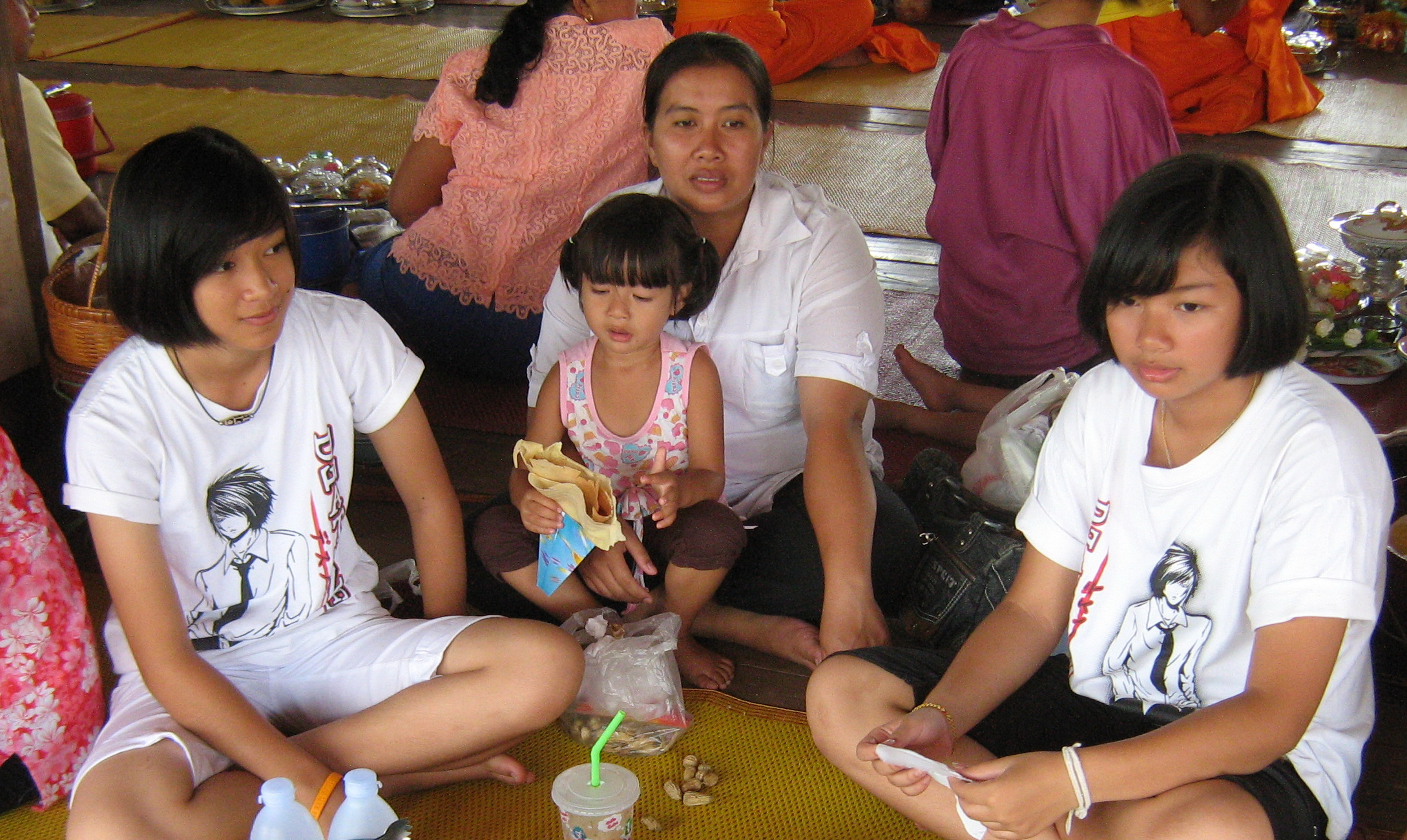 Buddhist in Ban Pa Sao, Pa Sao subdistrict, Mueang Uttaradit, Uttaradit Province, Thailand.